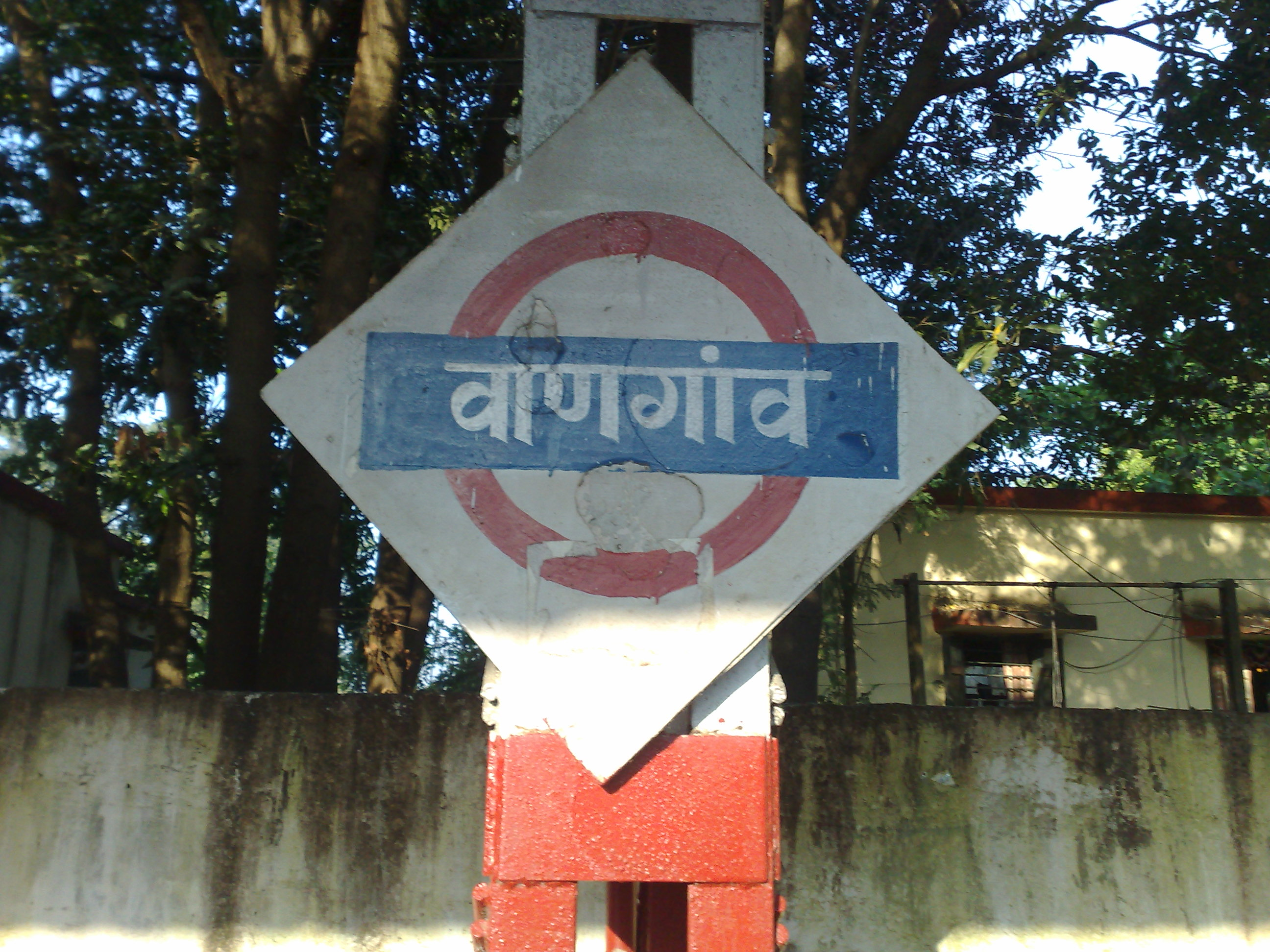 Vangaon railway platformboard